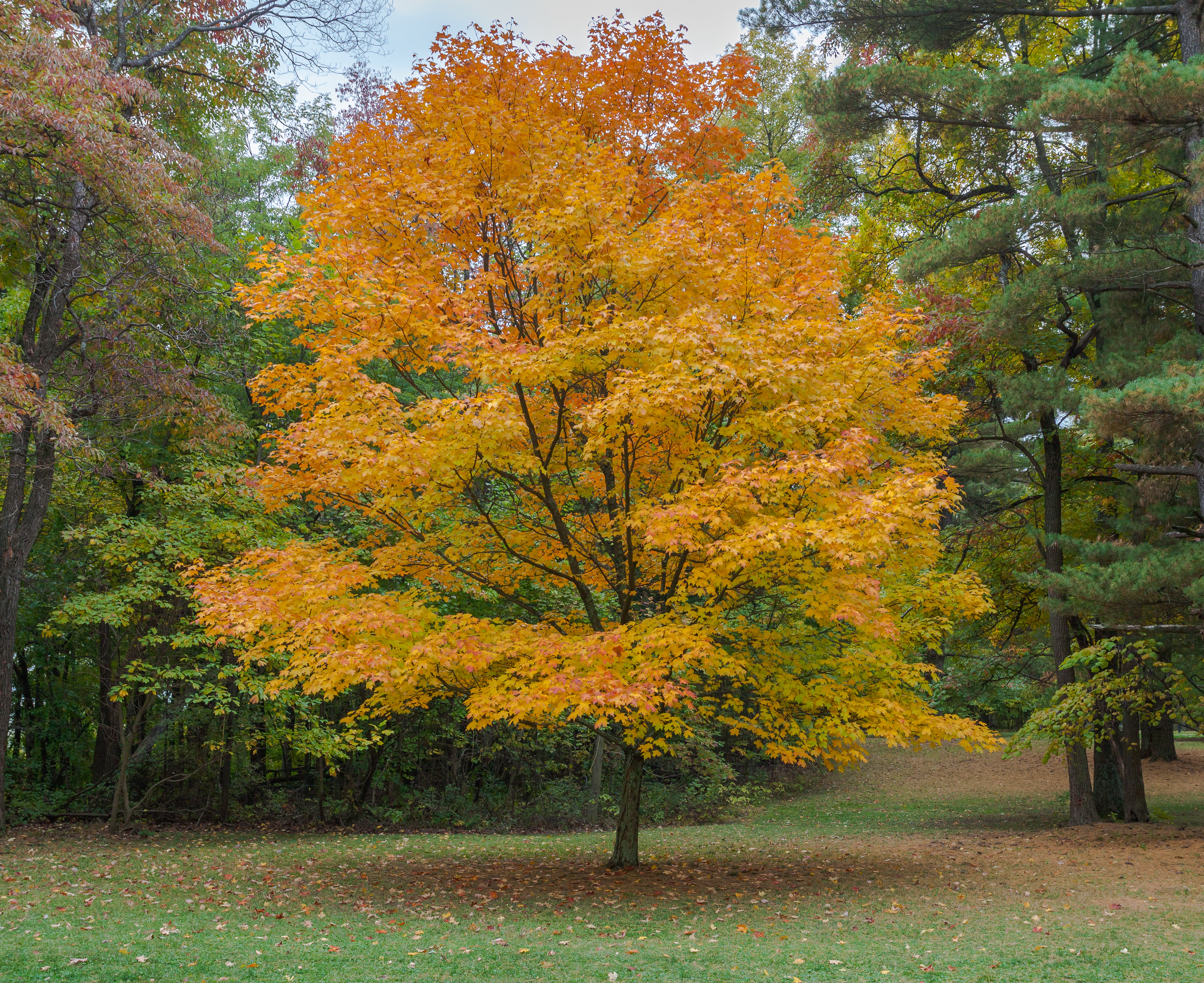 Brown County State Park, Indiana, USA